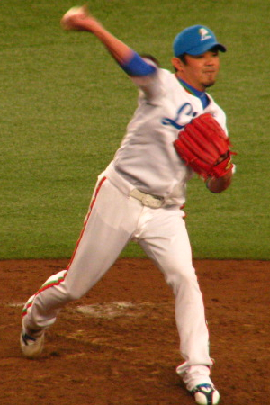 Koji Onuma, pitcher of the Saitama Seibu Lions, at Seibu Dome.